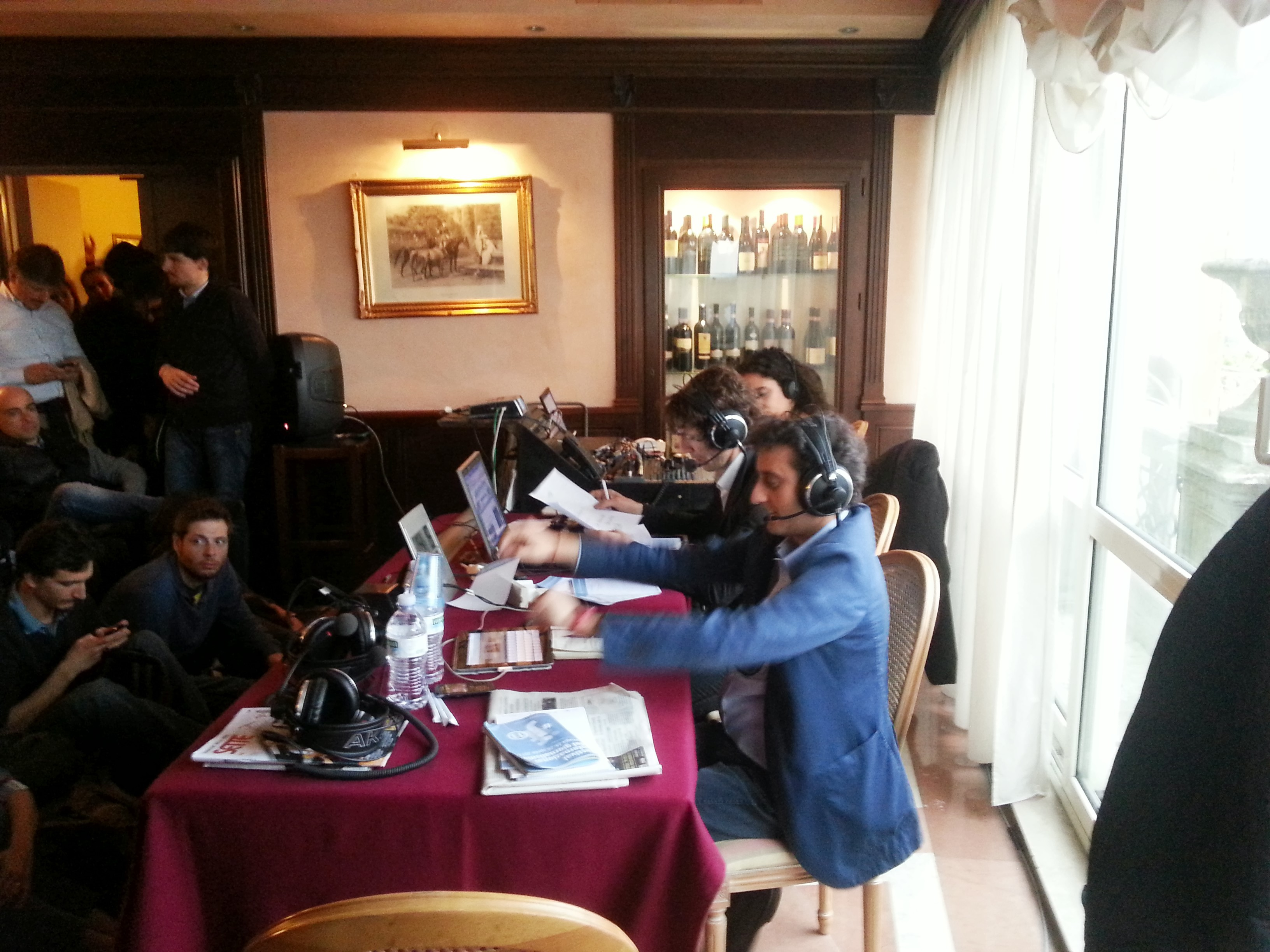 David Parenzo and Giuseppe Cruciani